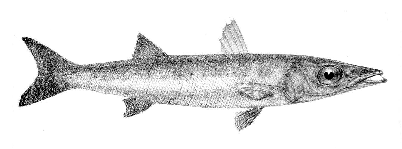 Sphyraena obtusata Cuvier, 1829(=Osphromenus nobilis).